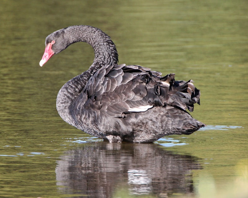 Black Swan Cygnus atratus Centiennal Park, Sydney, NSW, Australia 9th. August 2008 690V9265